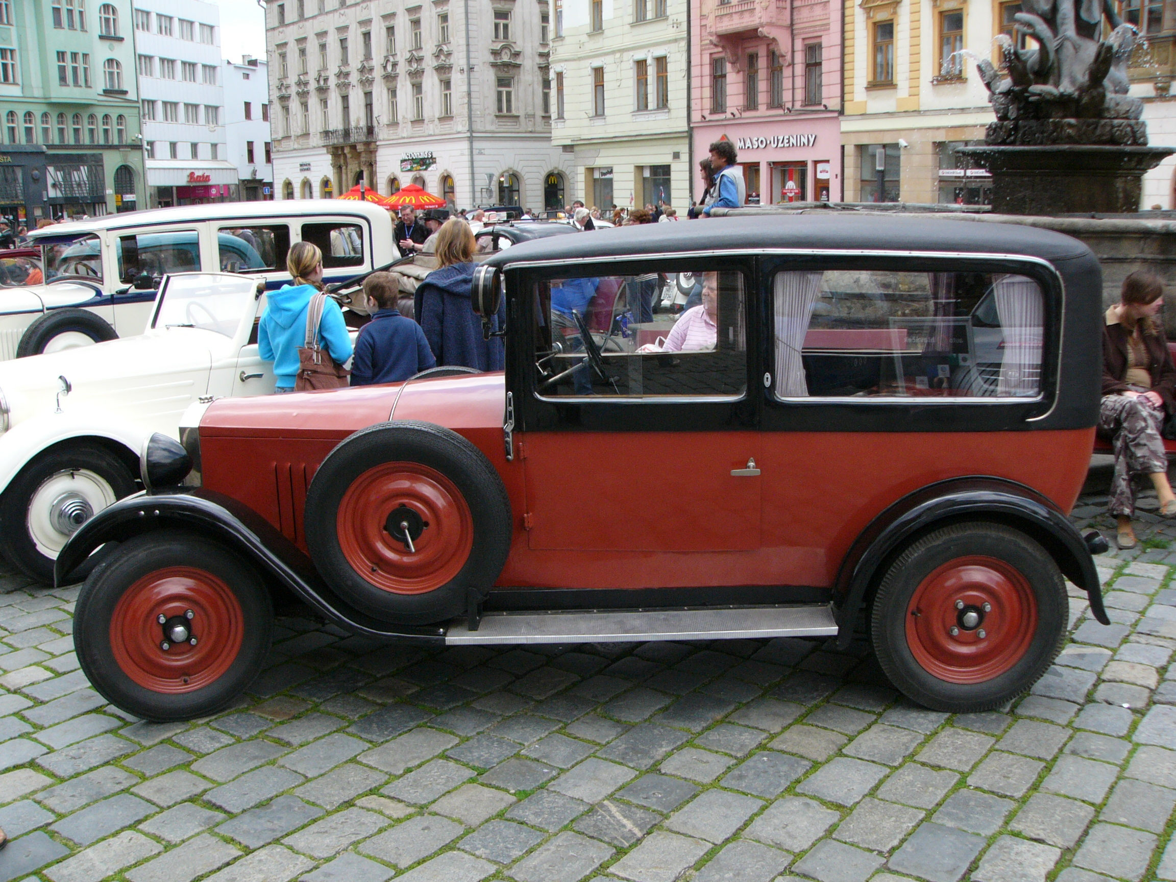 Zbrojovka Brno Z18 Express. This certain car was manufactured in 1929.